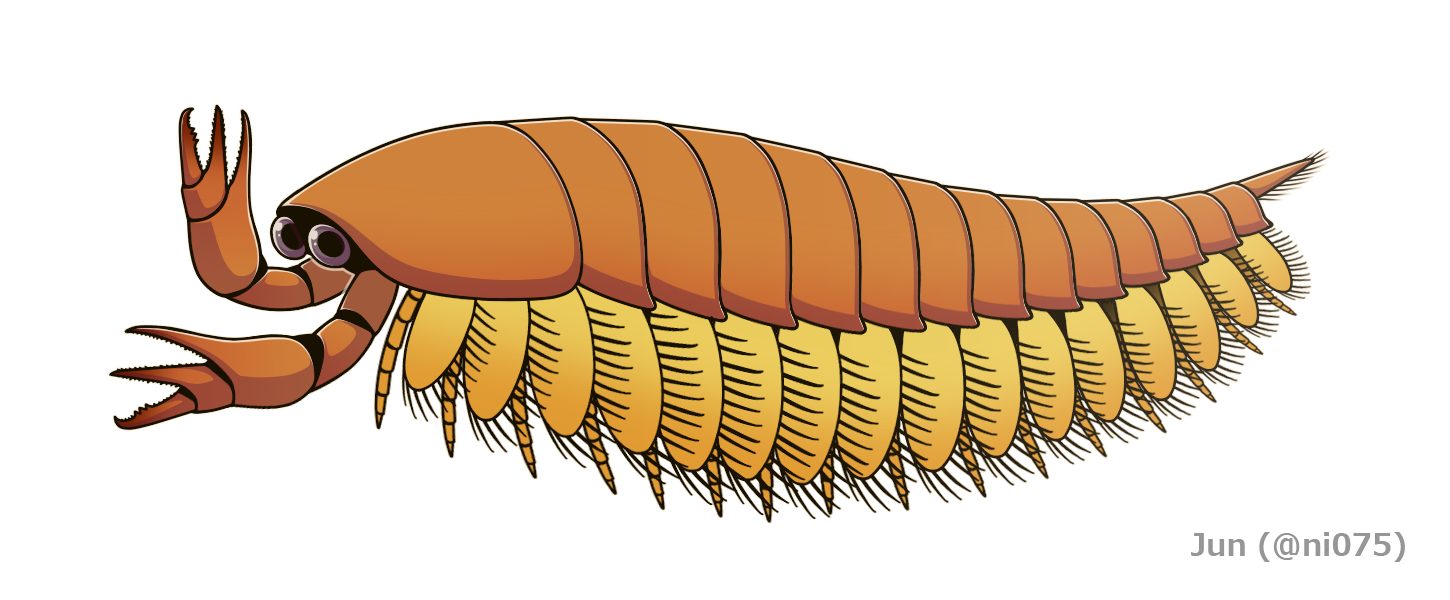 Reconstruction of Haikoucaris ercaiensis, a cambrian megacheiran arthropod.